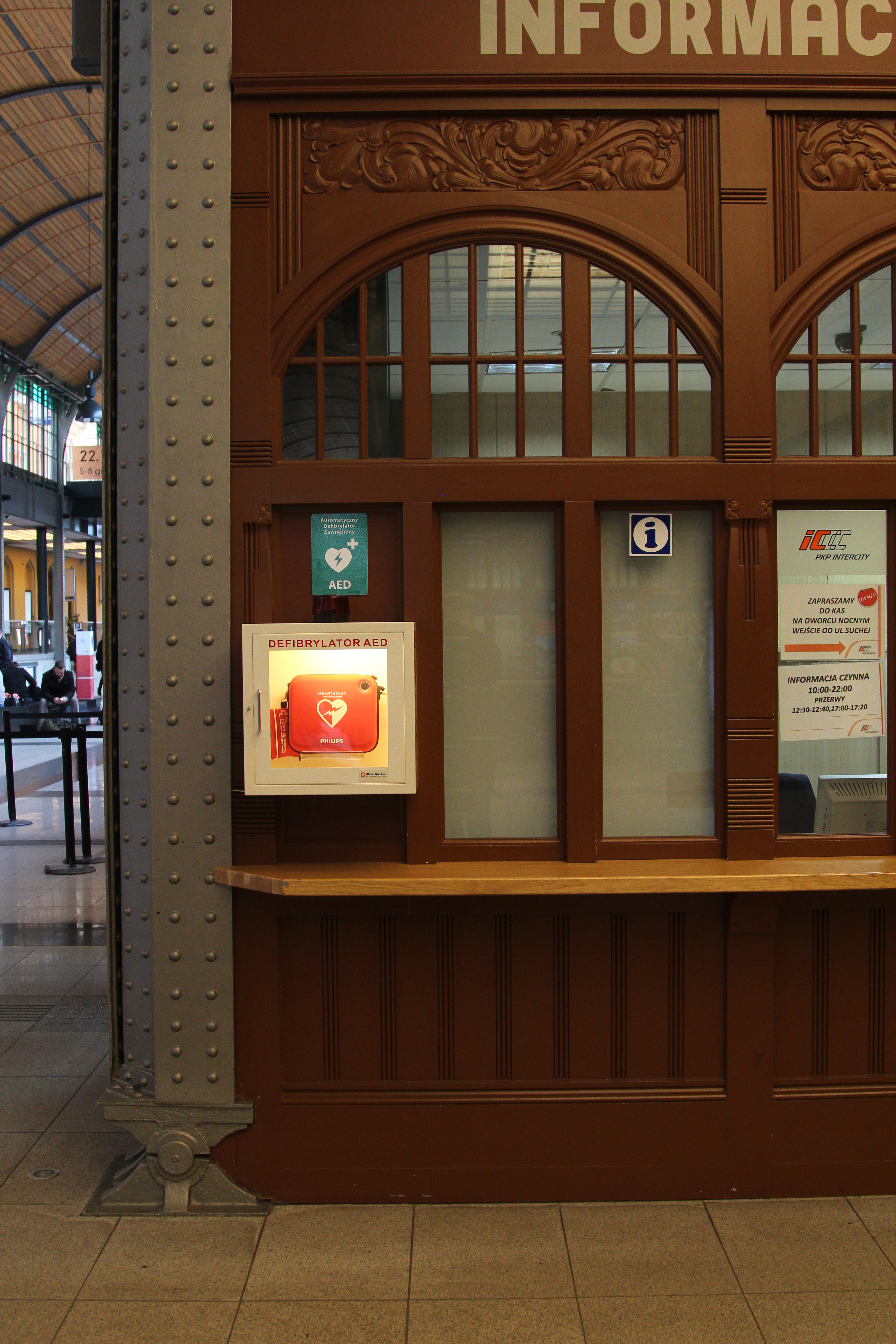 AED on Wrocław Main Railway station